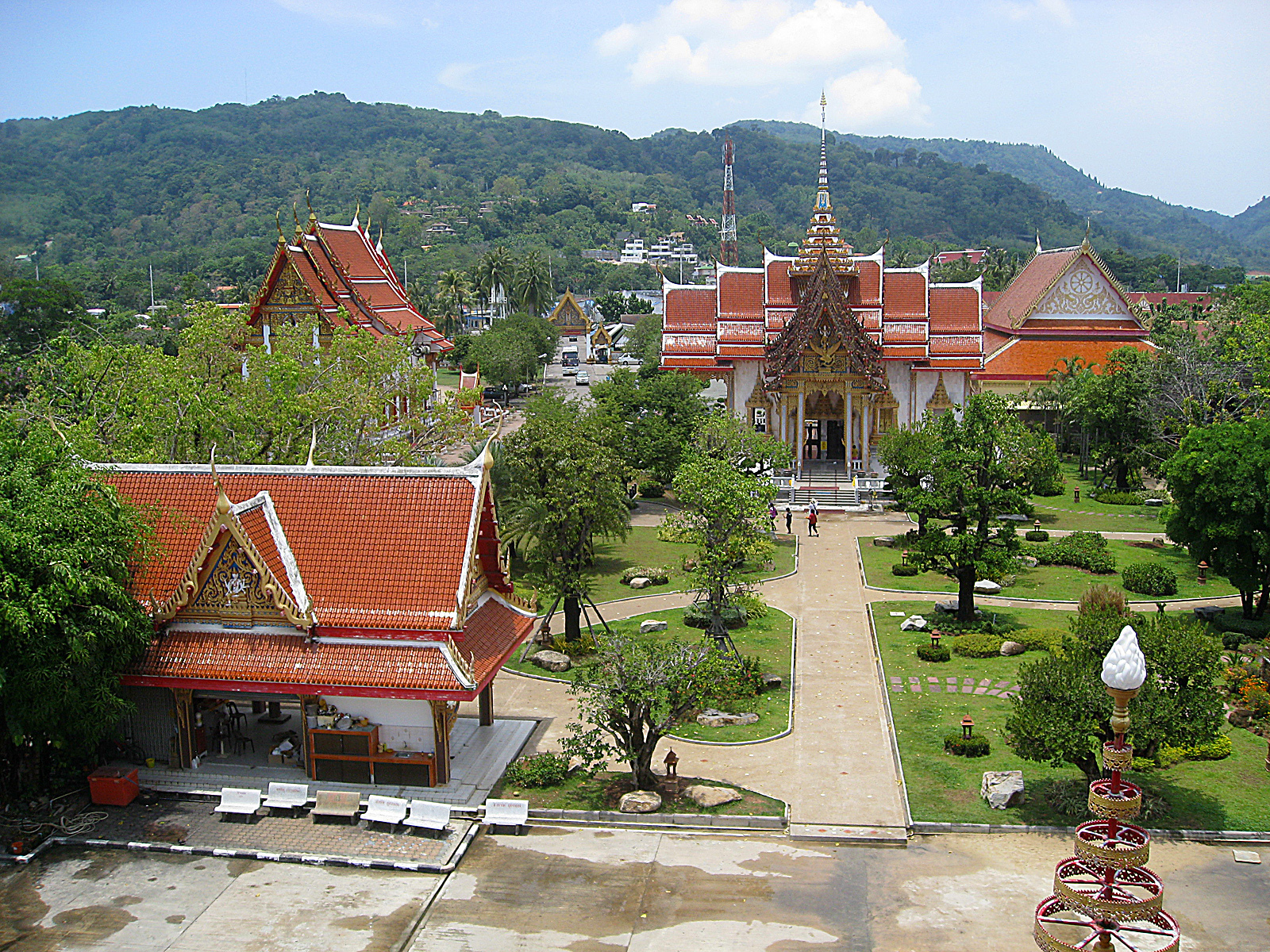 The Buddhist monastery Wat Chalong seen from the grand pagoda, Phuket, Thailand.